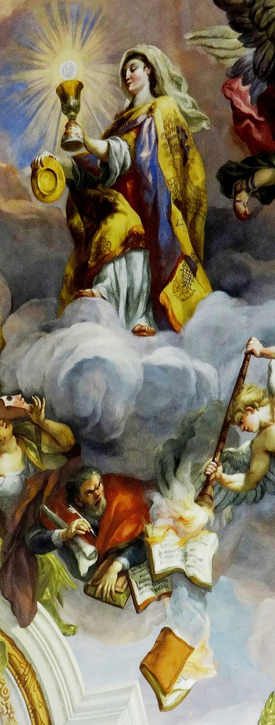 Karlskirche Vienna, dome fresco (1729), detail: Catholic faith defeating protestant heresies